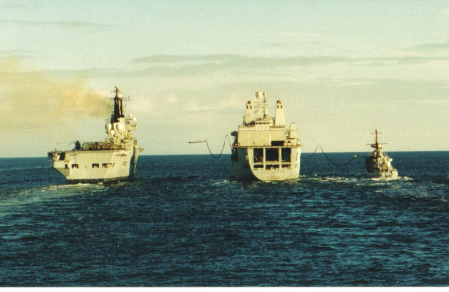 RFA Fort George replenishing both a Norwegian frigate (right) and aircraft carrier HMS Invincible (left) simultaneously during an excercise in 2001.